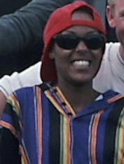 Kayo Shekoni, cropped version of